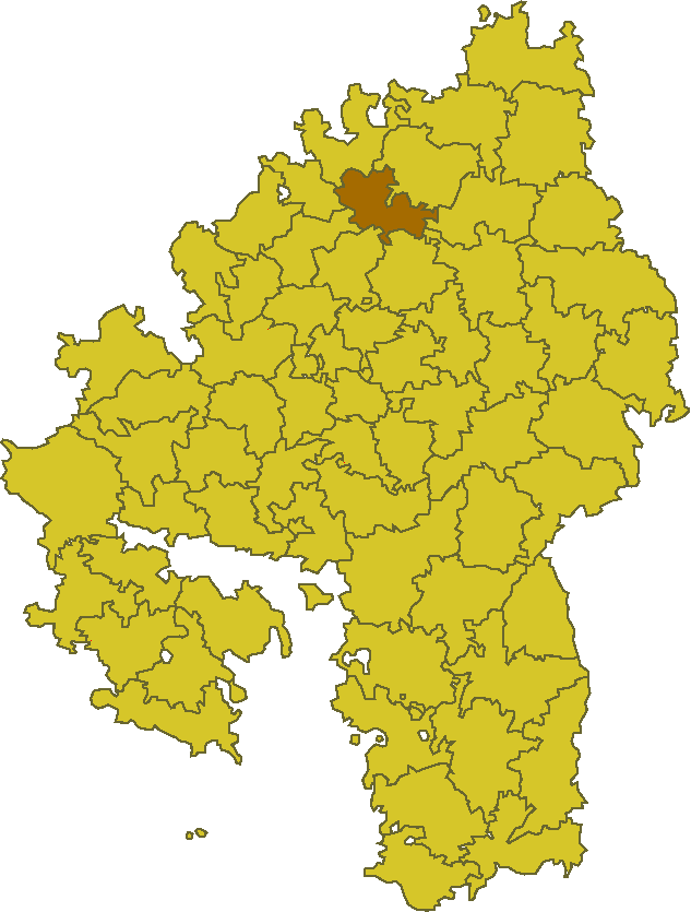 Map of administrative subdivisions (Oberämter) in Württemberg as of 1835, Oberamt Weinsberg marked in brown